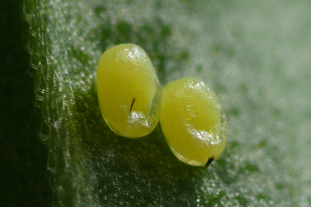 Eggs of the Six-spot lurnet (Zygaena filipendulae) on Ox-eye (Buphthalmum salicifolium), Bayrischzell, Bavaria, Germany